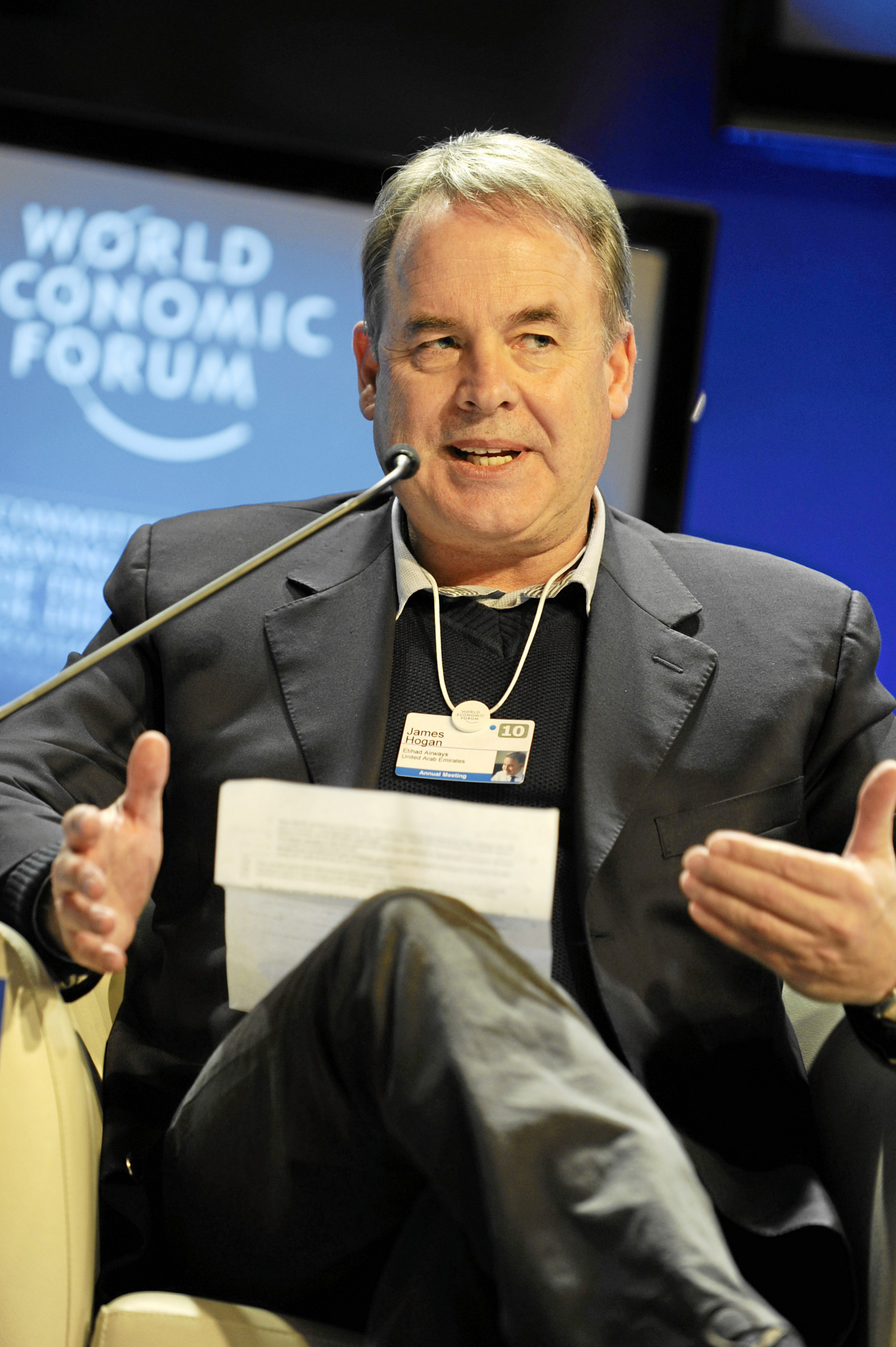 DAVOS/SWITZERLAND, 30JAN10 - James Hogan, Chief Executive Officer, Etihad Airways, United Arab Emirates; Chair of the Governors Meeting for Aviation, Travel & Tourism 2010; Global Agenda Council on Emerging Multinationals captured during the session 'Global Industry Outlook: Health, Consumers, Tech and Travel' at the congress centre of the Annual Meeting 2010 of the World Economic Forum in Davos, Switzerland, January 30, 2010. Copyright by World Economic Forum by Michael Wuertenberg